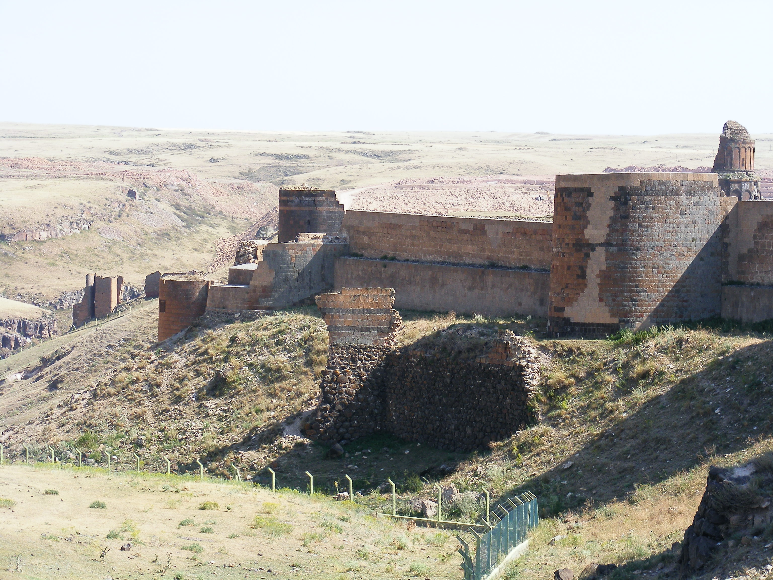 Walls of Ani, former capital of Armenia, nowadays in eastern Turkey